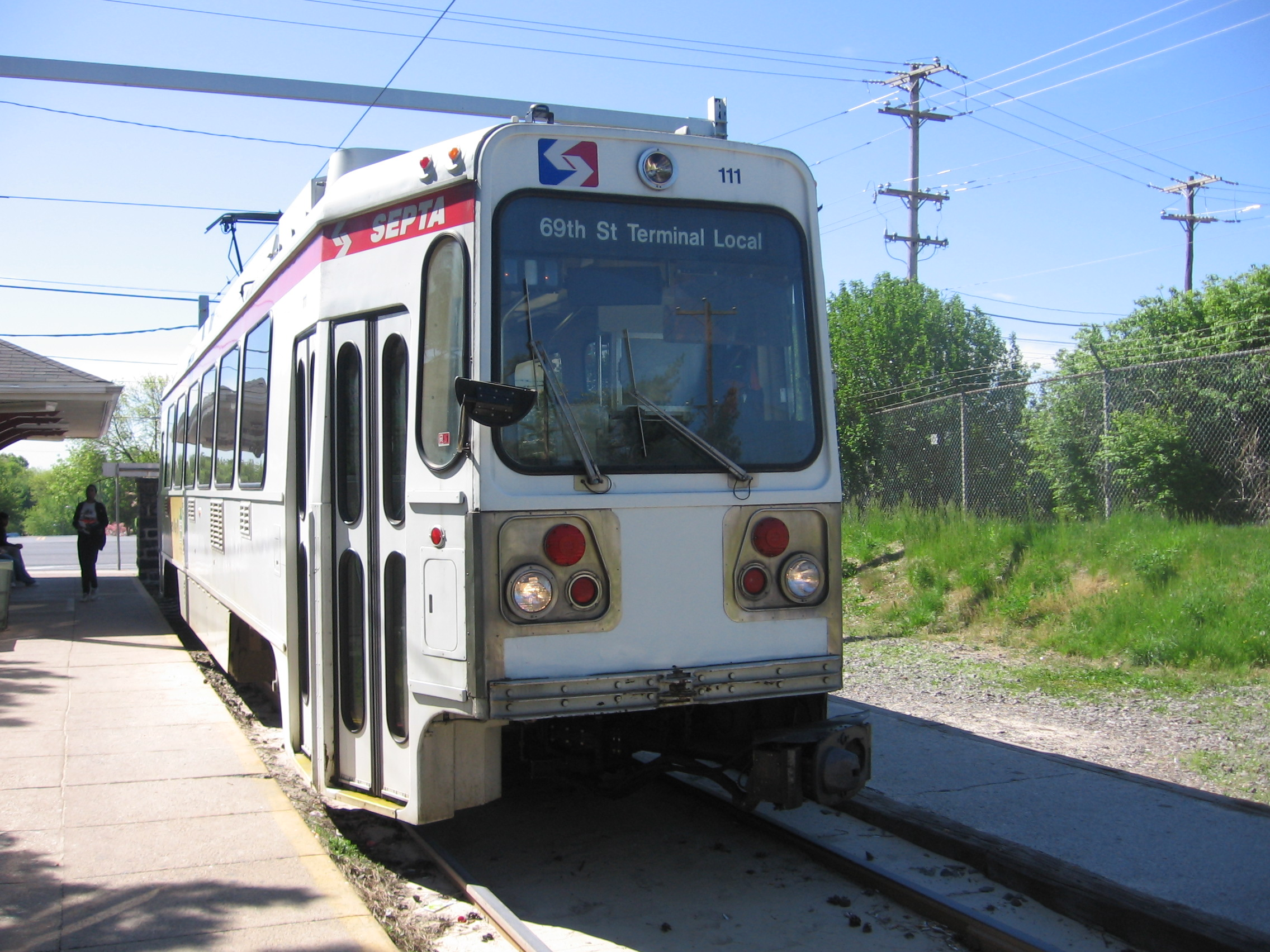 Kawasaki light Rail Vehicle at Sharon Hill